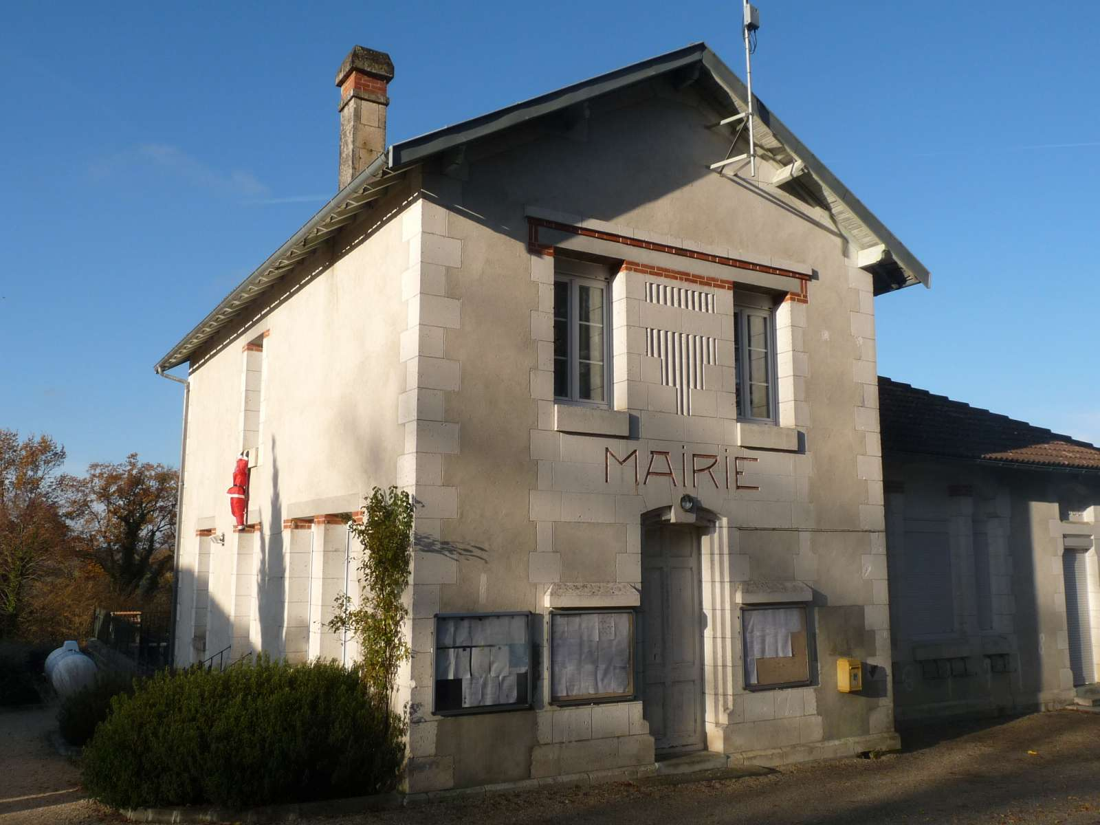 town hall